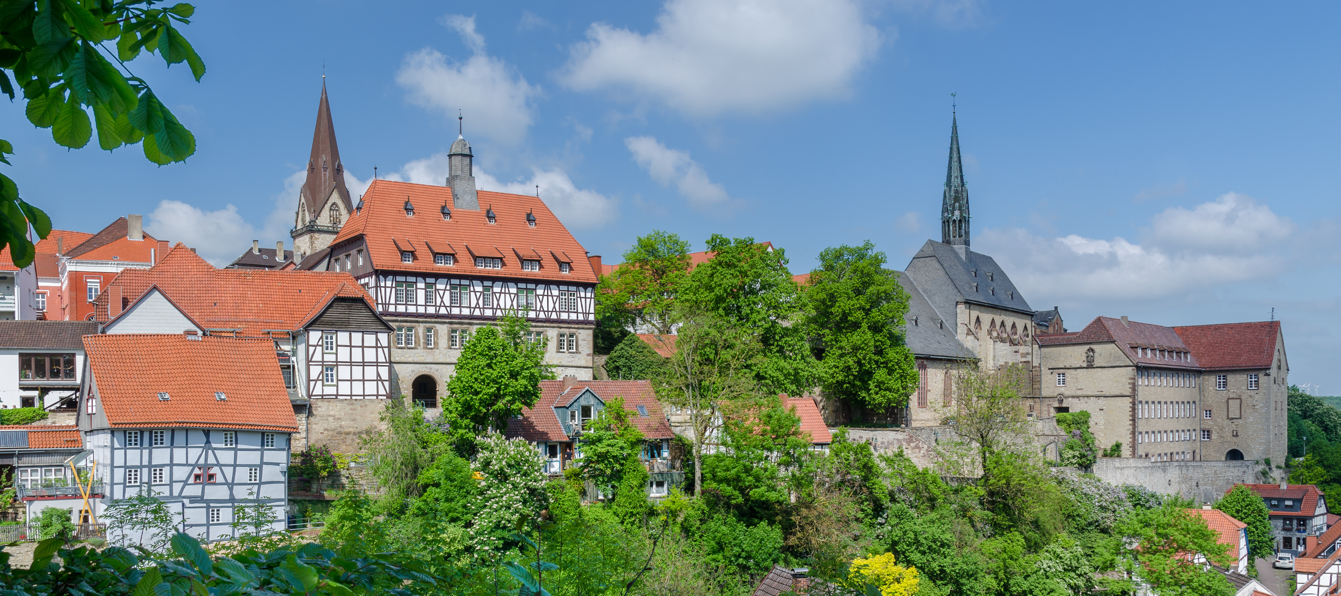 Panoramic view over medieval town of Warburg, picture taken at Fügeler Kanone